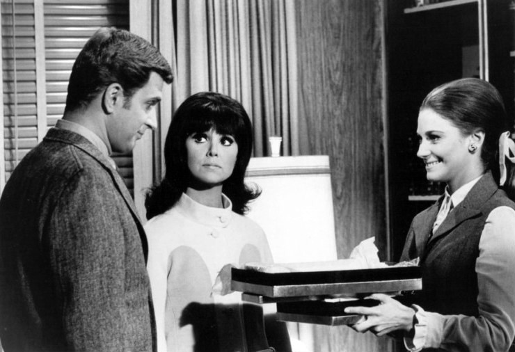 Publicity photo of Marlo Thomas, Ted Bessell and Jennifer Douglas from the television program That Girl.